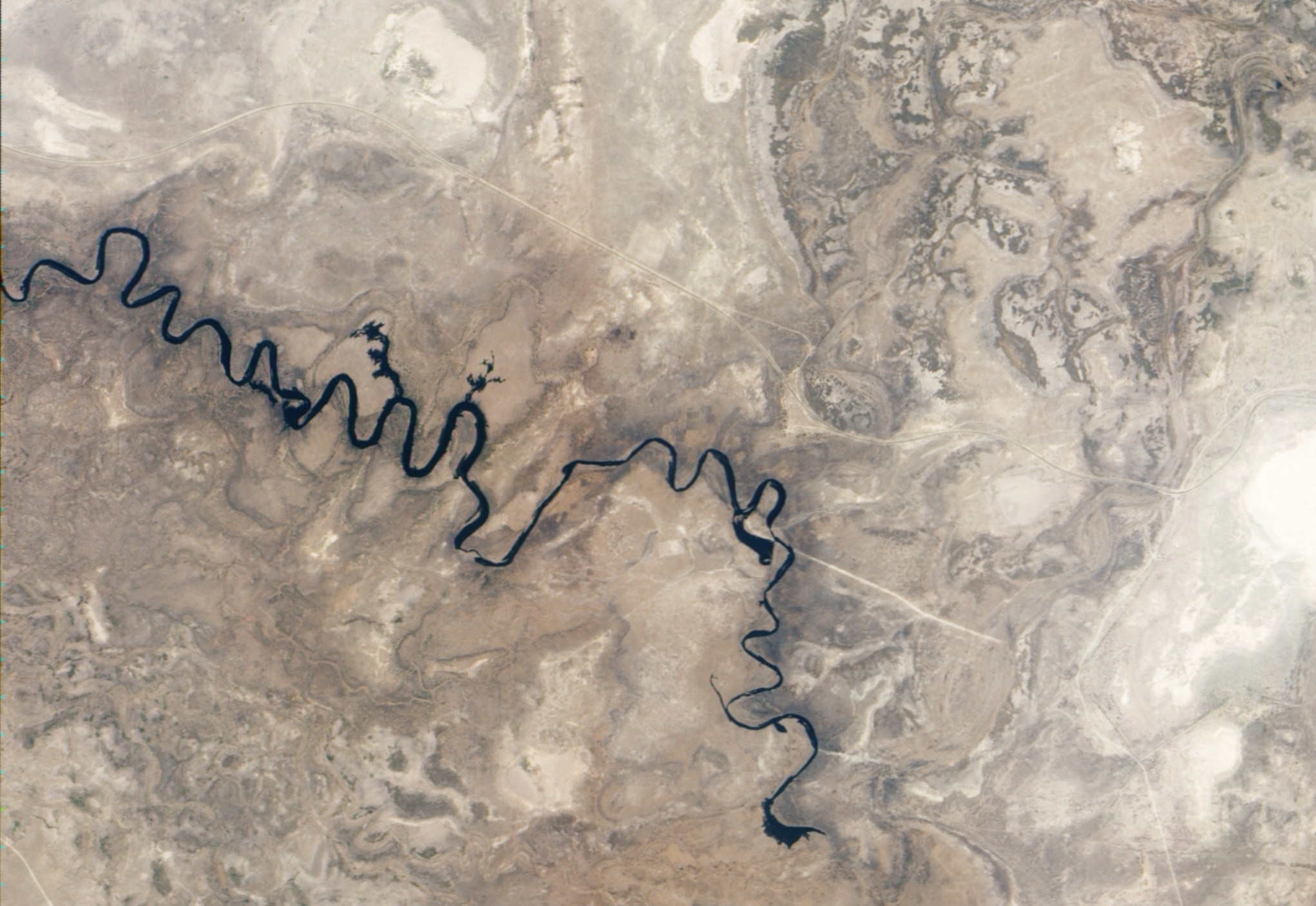 Natural-colour image of the Boteti River. Arising from overflow in the Okavango Delta, the Boteti River flows toward the south-east before turning northward into the expansive salt-pans of Makgadikgadi. This image shows the river stopping short of Makgadikgadi, which lies to the east. The river follows a long series of hairpin curves. On the outer loops of some curves, the river overflows onto nearby floodplains. Two such overflows are obvious near the centre of the image. In the east, another area of overflow takes the approximate shape of a boot. Here the water has probably flowed onto agricultural fields, and the water’s spread may be constrained by a nearby road. Near the lower right corner of the image, the Boteti River terminates. Upstream from this endpoint, the river is particularly thin. The water supply may still be insufficient to drive the Boteti onward into the nearby saltpans. According to Frank Eckhardt of the University of Cape Town, the presence of any water in the river valley was unusual by 2010, and some observers thought the Boteti was a dead river. Naturalist blogs reported that the Boteti held some water in September 2009, but according to Eckardt, its last major flood occurred in 1991. Outside of the river valley, the dry season has parched the landscape. Nearby river valleys, floodplains, and salt lakes appear in tones of beige and brown.